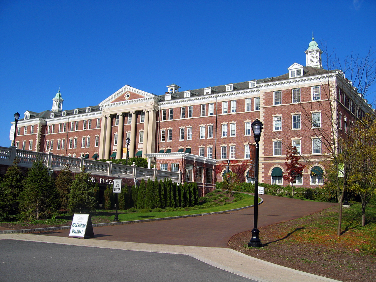 Culinary Institute of America At the CIA in Hyde Park, New York.